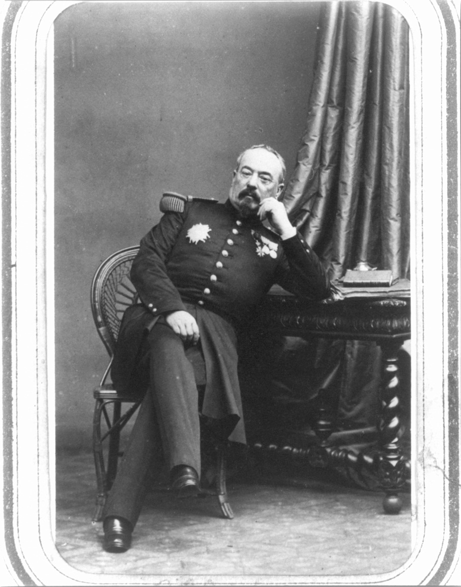 Photograph of French general François Bazaine while on campaign in Mexico.